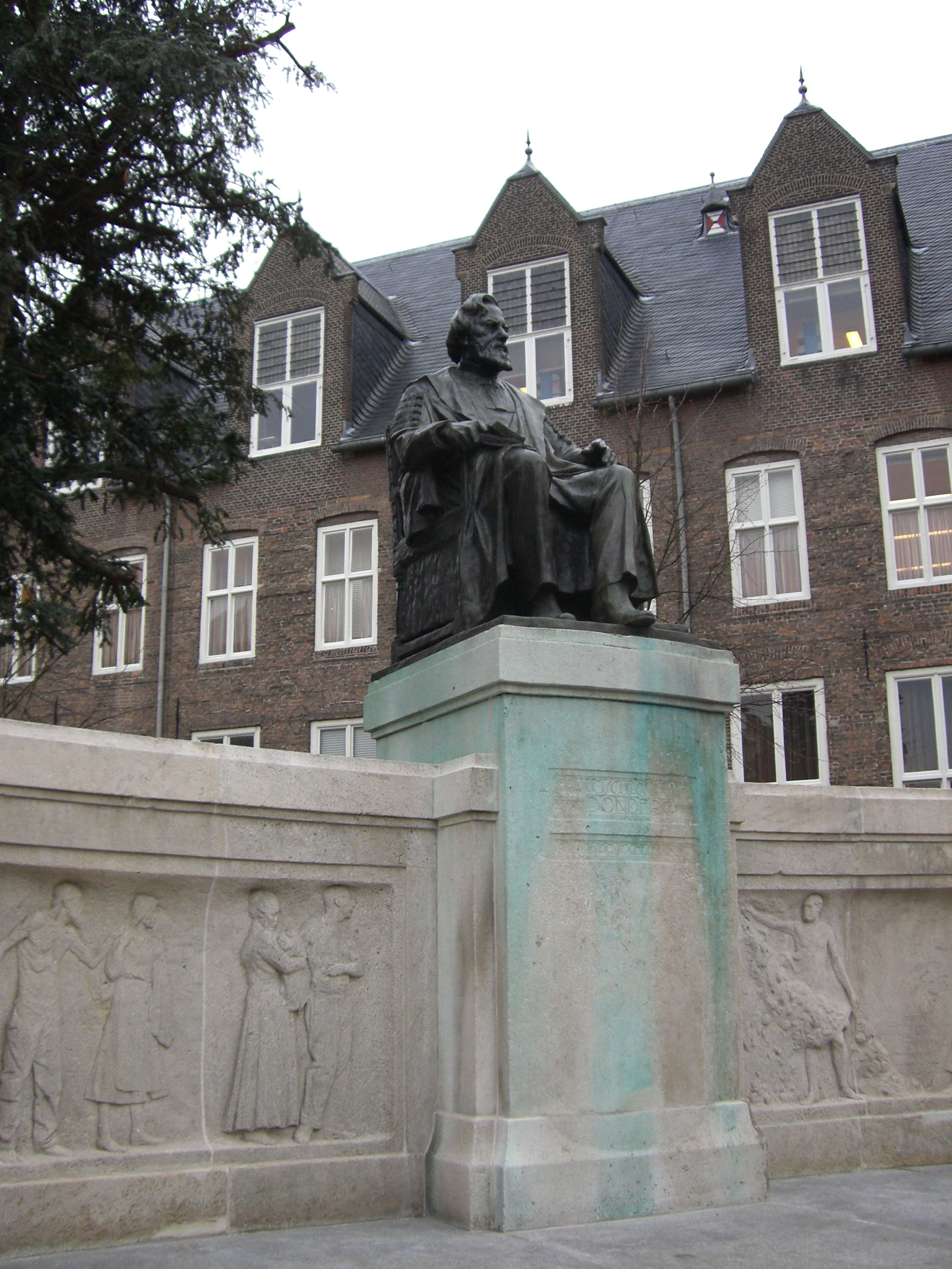 Statue of professor Fransiscus Cornelis Donders in Utrecht, The Netherlands, made by Toon Dupuis in 1921[1].